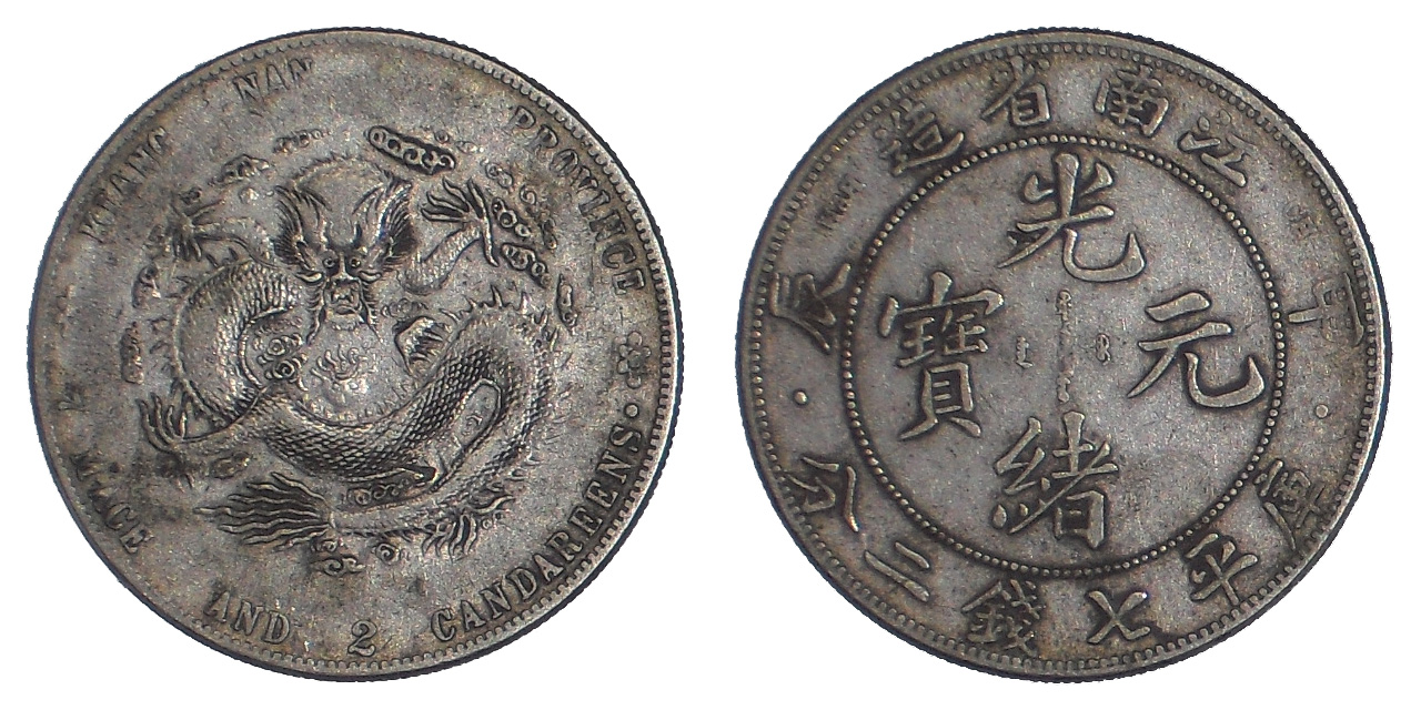 China-7sen2hun-1904